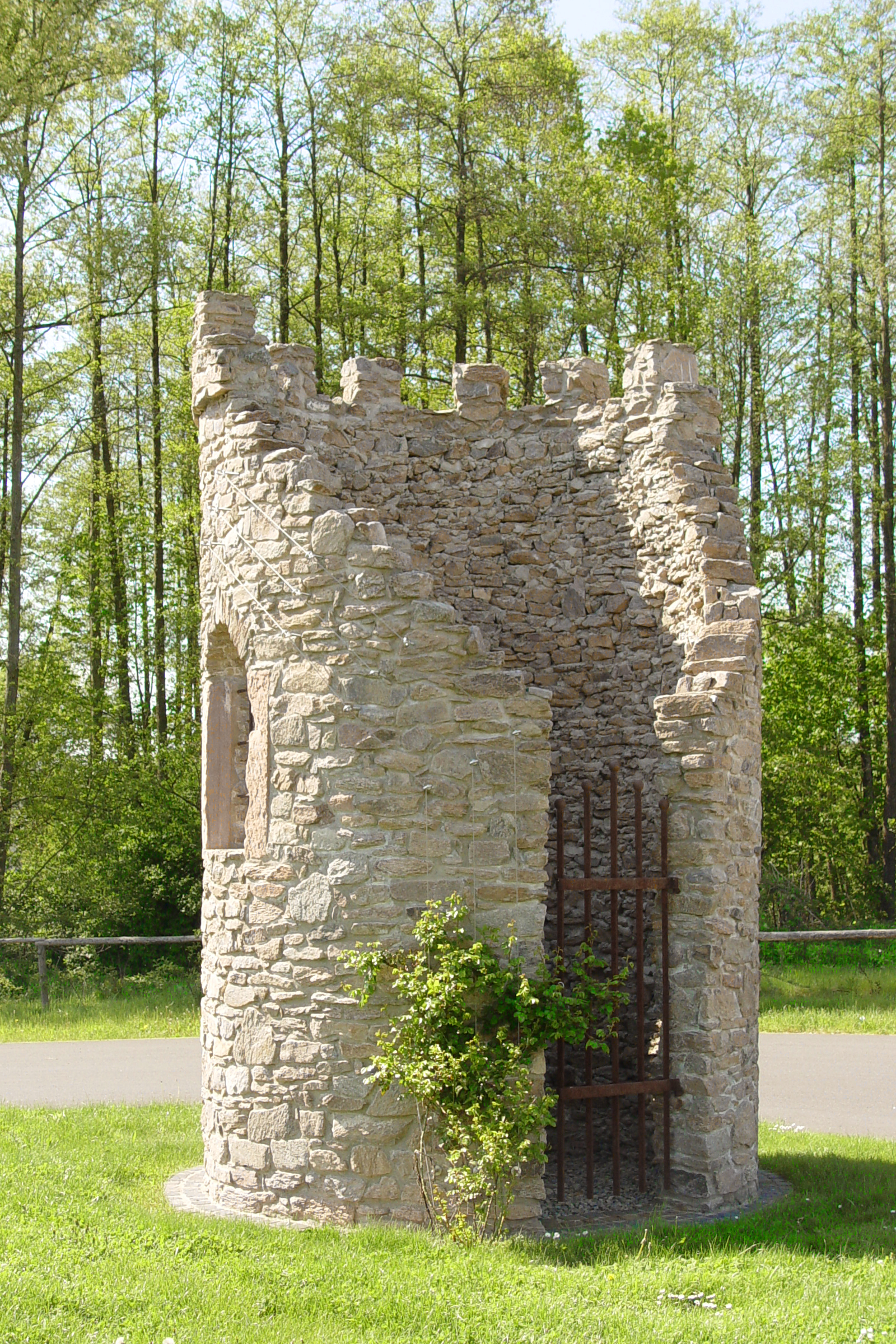 Goldbach (Lower Franconia), artificial tower ruin from 2012 at entrance to the town in memory of the former castle "Kugelburg"